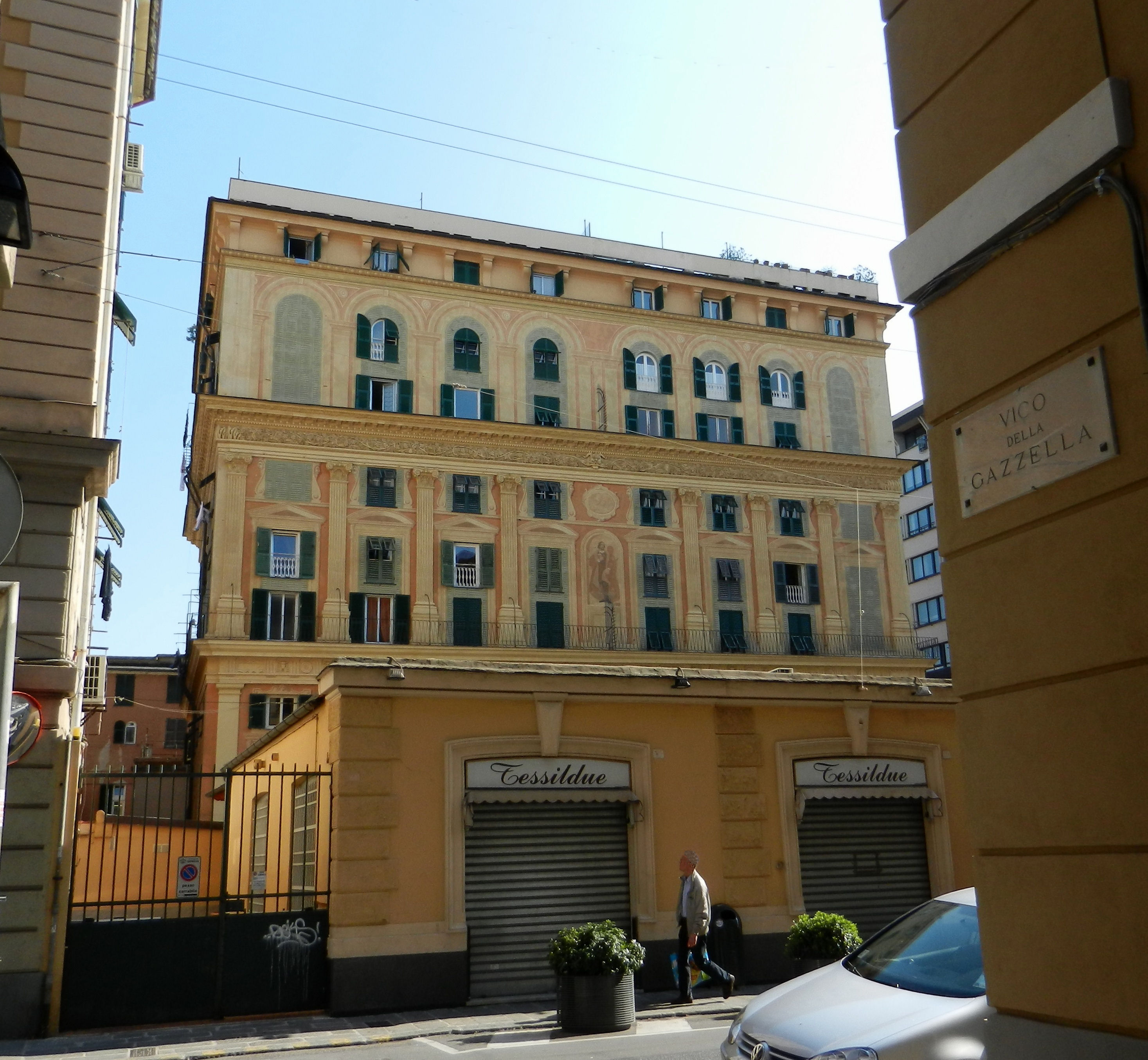 Genoa (Italy), quarter of San Vincenzo, Palace Grimaldi-Sauli